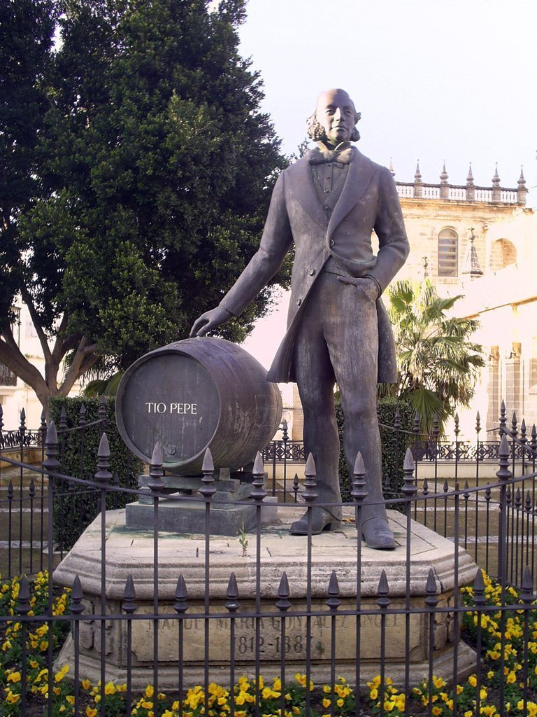 Manuel María González Ángel statue (b.1812-d.1887), González Byass sherry company founder Jerez de la Frontera, Andalusia (Spain).